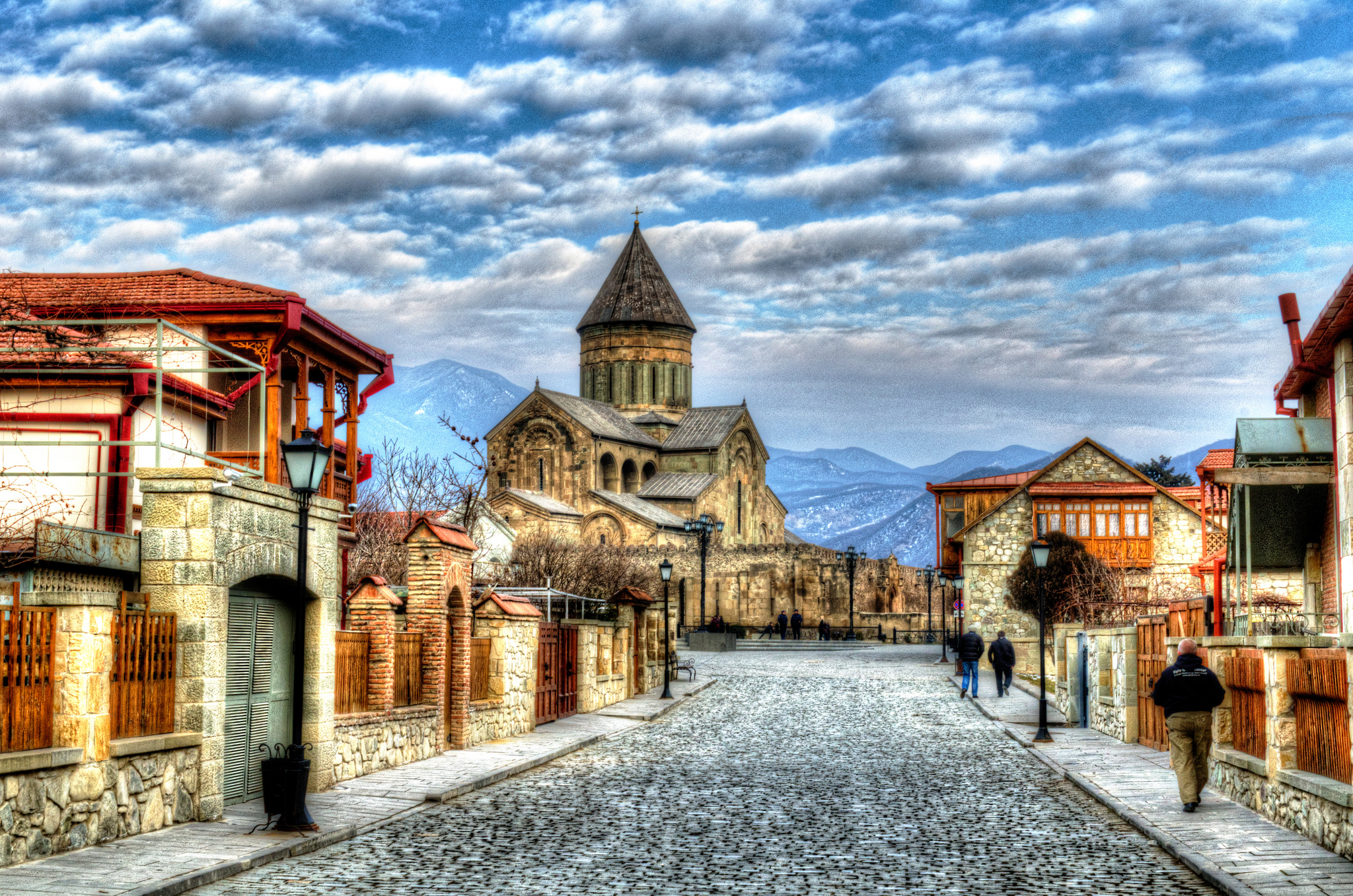 Mtskheta, Georgia.